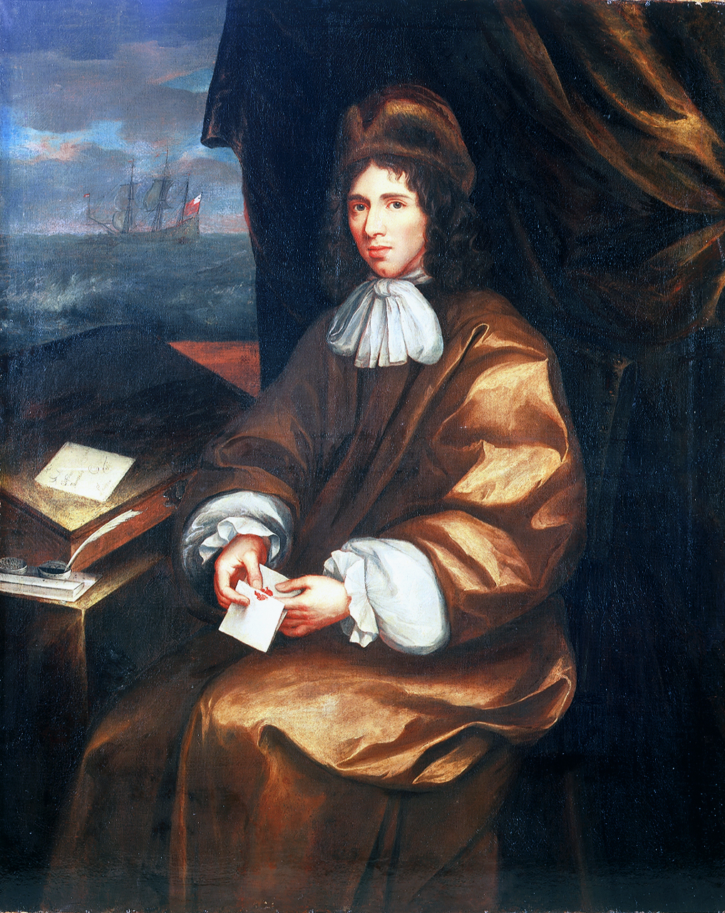 Charles Weston (1639-1665), 3rd Duke of Portland oil on canvas 127 x 101.5 cm